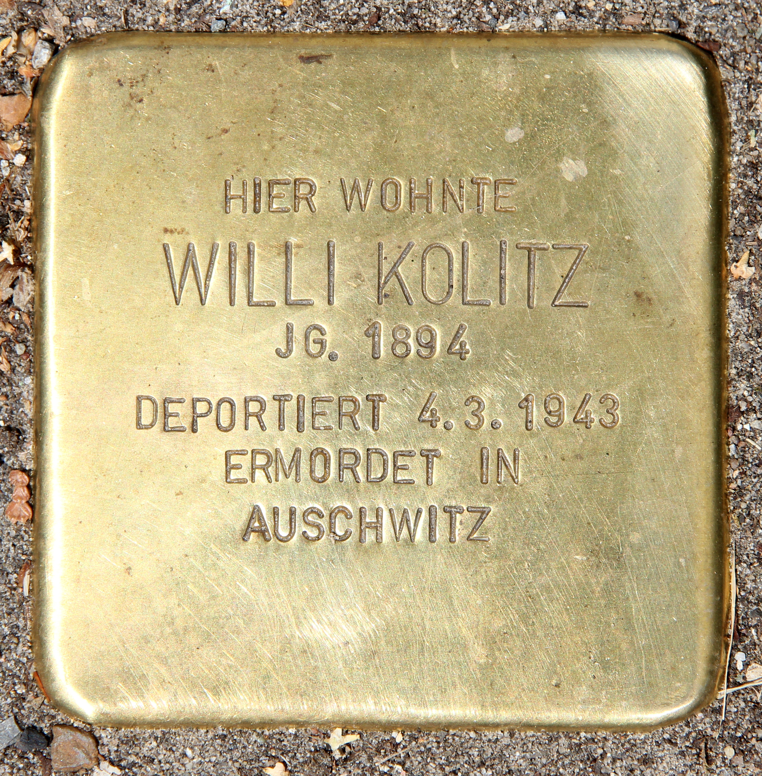 "Stolperstein" (stumbling block), Willi Kolitz, Große-Leege-Straße 44b, Berlin-Alt-Hohenschönhausen, Germany